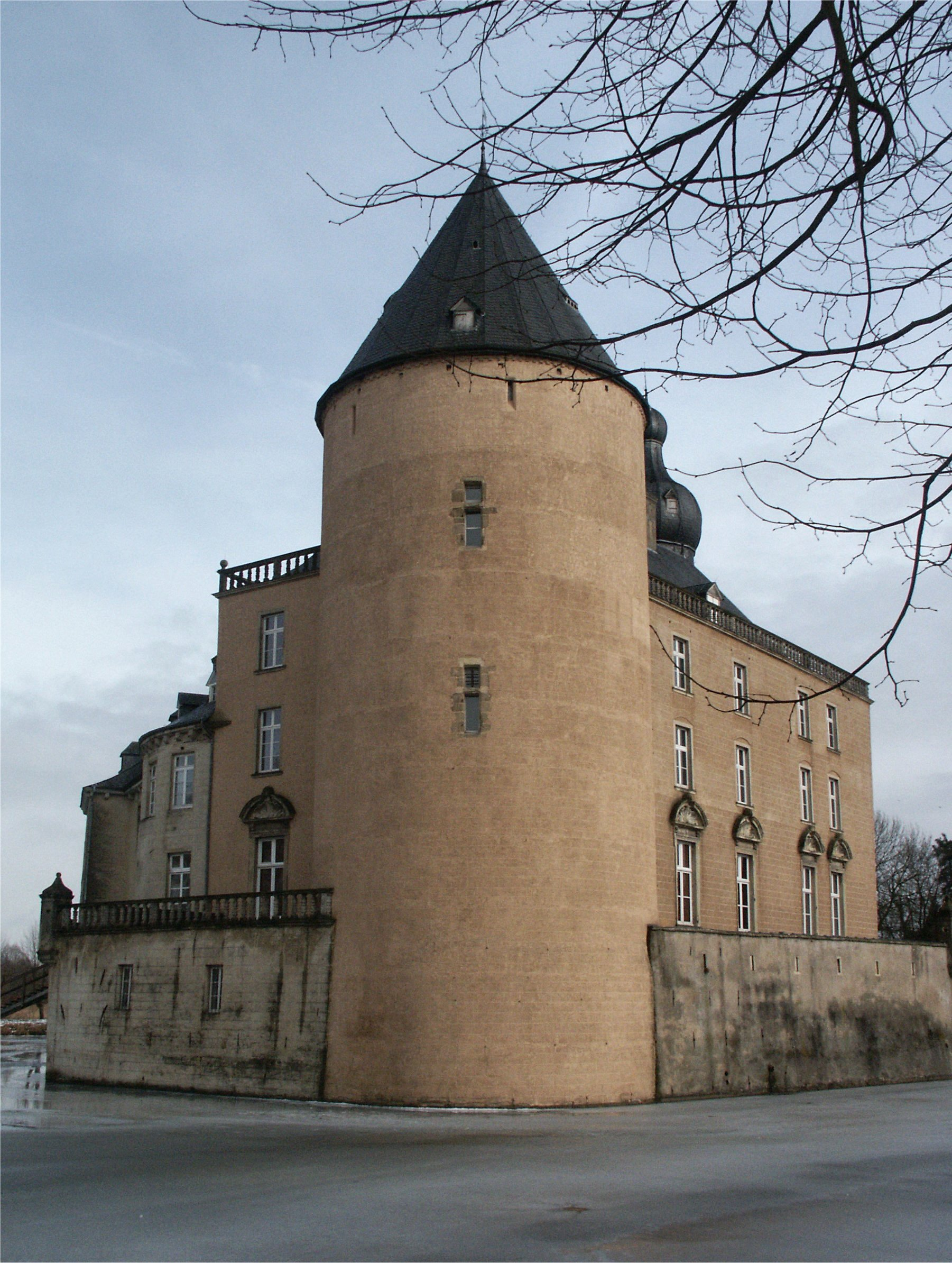 Castle of Gemen - battery tower